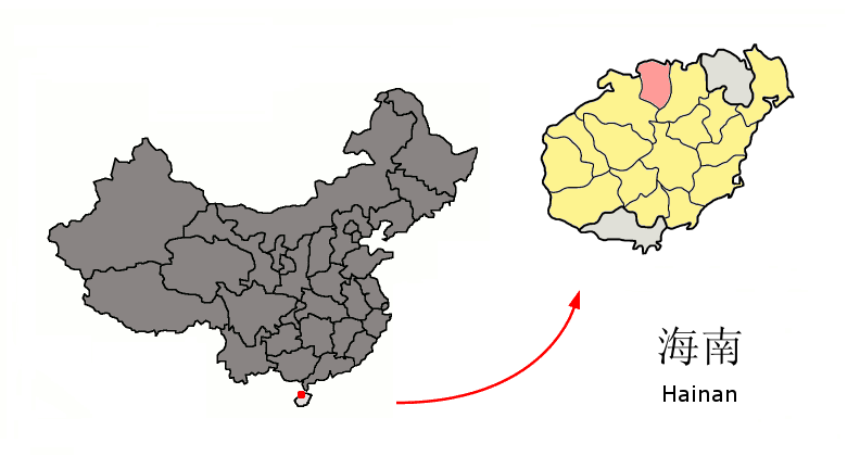 Location of Lingao County (pink) and the subdivisions directly administered by the province (yellow) within Hainan province of China Map drawn in september 2007 using various sources, mainly : Hainan Counties map from